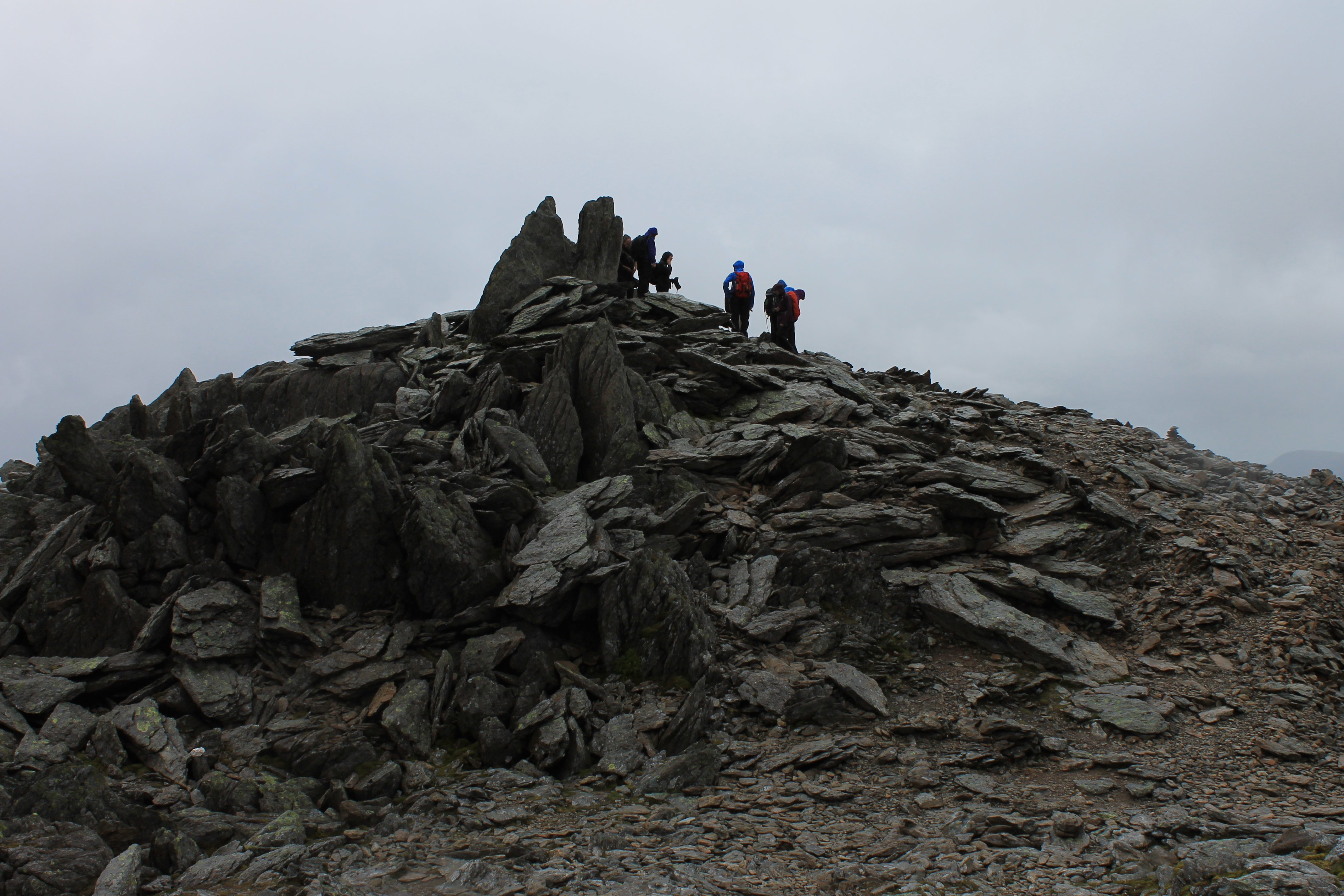 Glyder Fawr peak, in August.